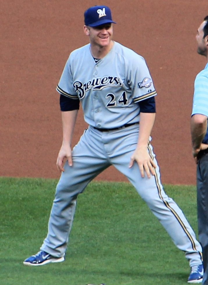 Lyle Overbay, May 22, 2014